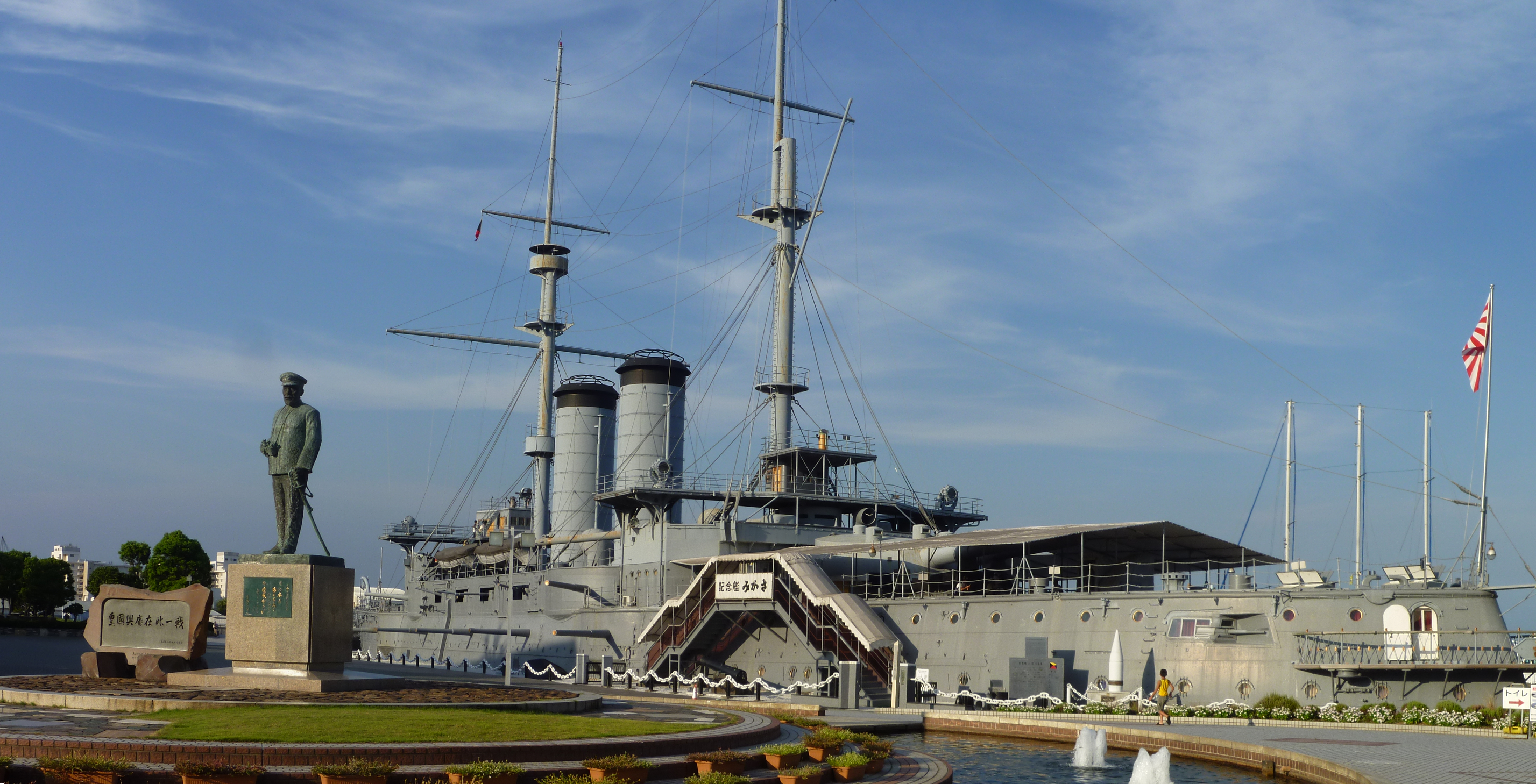 Mikasa is a pre-Dreadnought battleship, formerly of the Imperial Japanese Navy, launched in Britain in 1900.